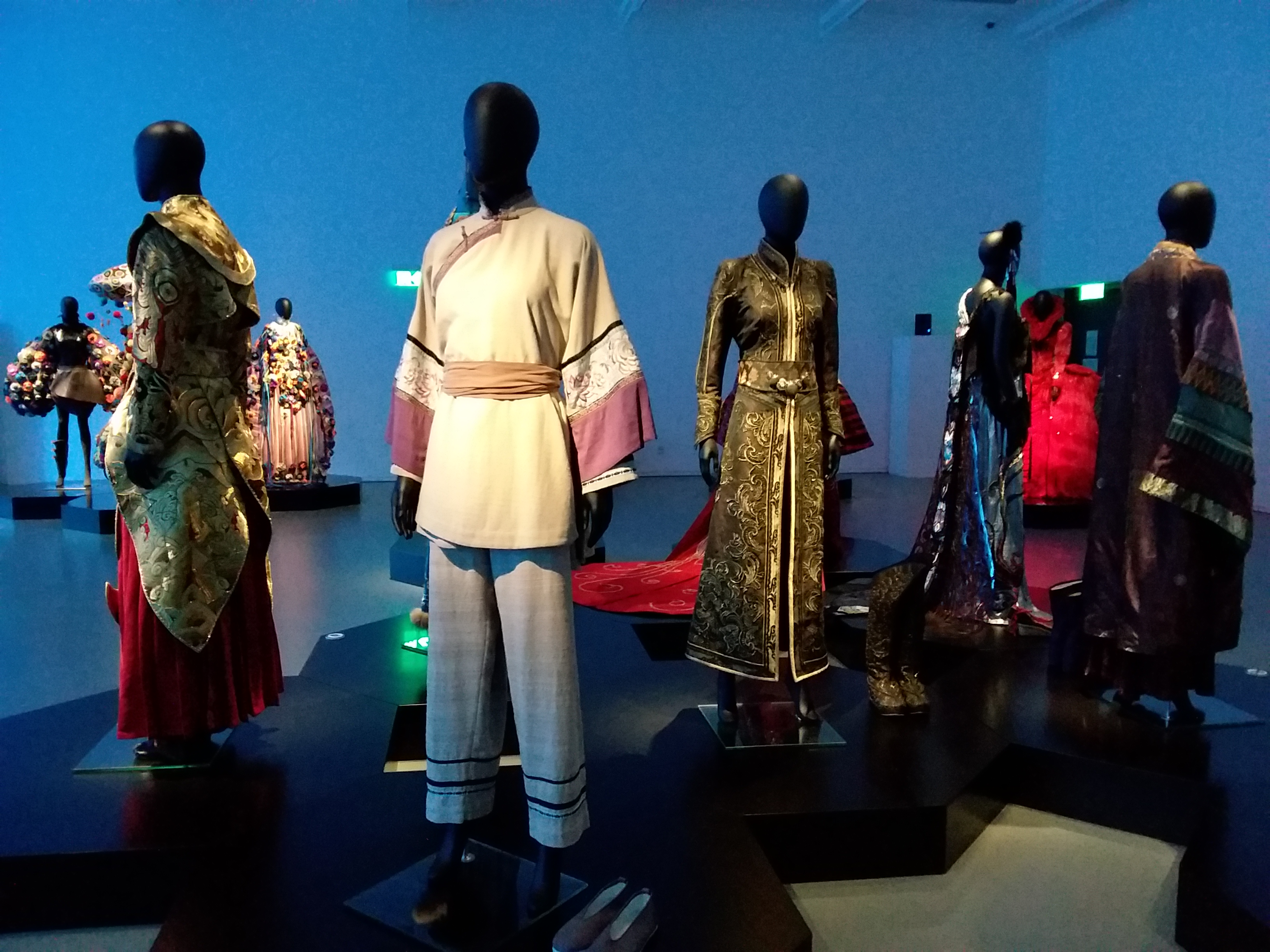 HKDI TKL Tiu Keng Leng exhibition Yip Tim Blue mode & Crouching Tiger Hidden Dragon 臥虎藏龍 movie clothing 葉錦添 Yip Kam Tim in December 2018